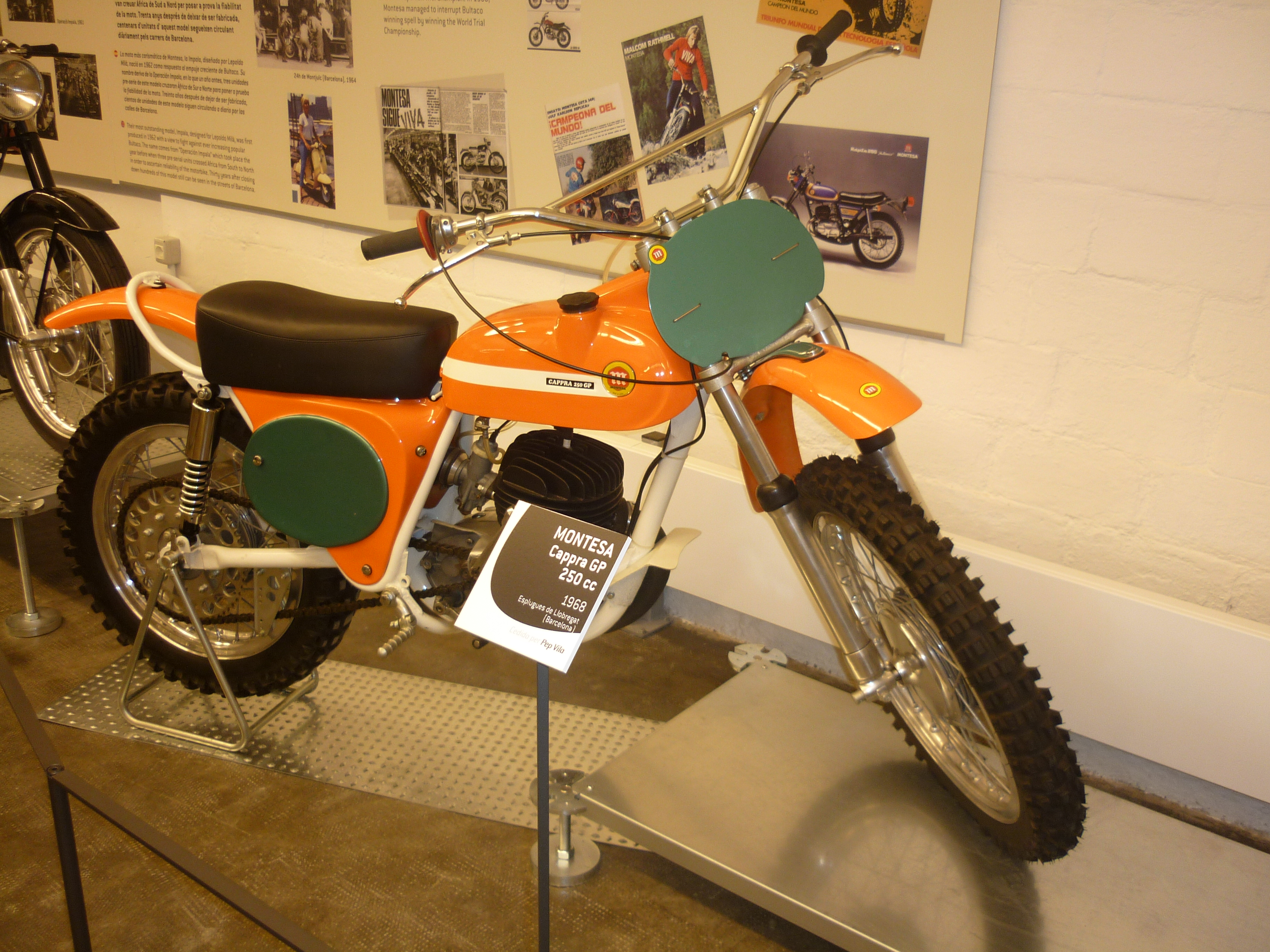 Montesa Cappra GP 250cc (1968).Museu de la Moto de Barcelona (Catalonia).